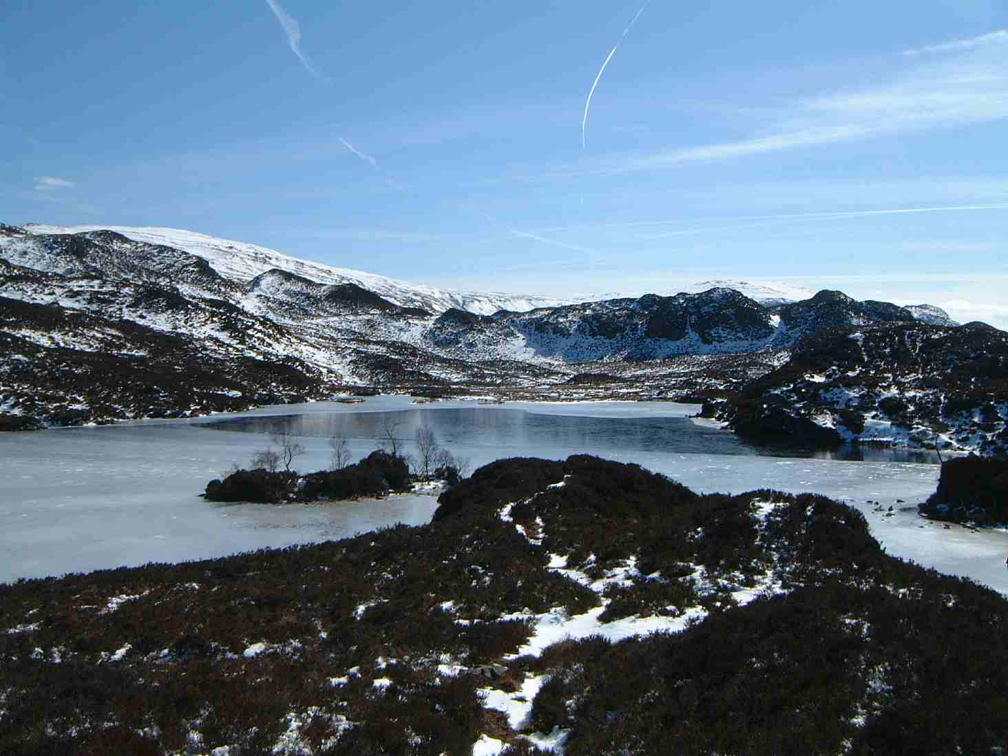 Personal photograph taken by Mick Knapton on March 22nd 2006